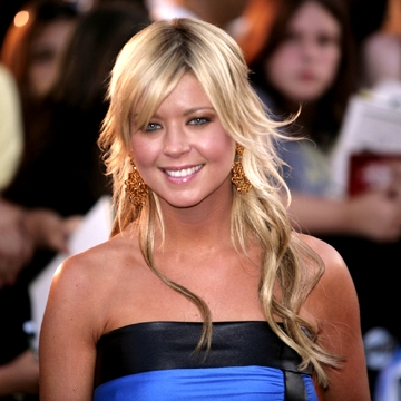 Tara Reid at the 2007 MuchMusic Video Awards red carpet.